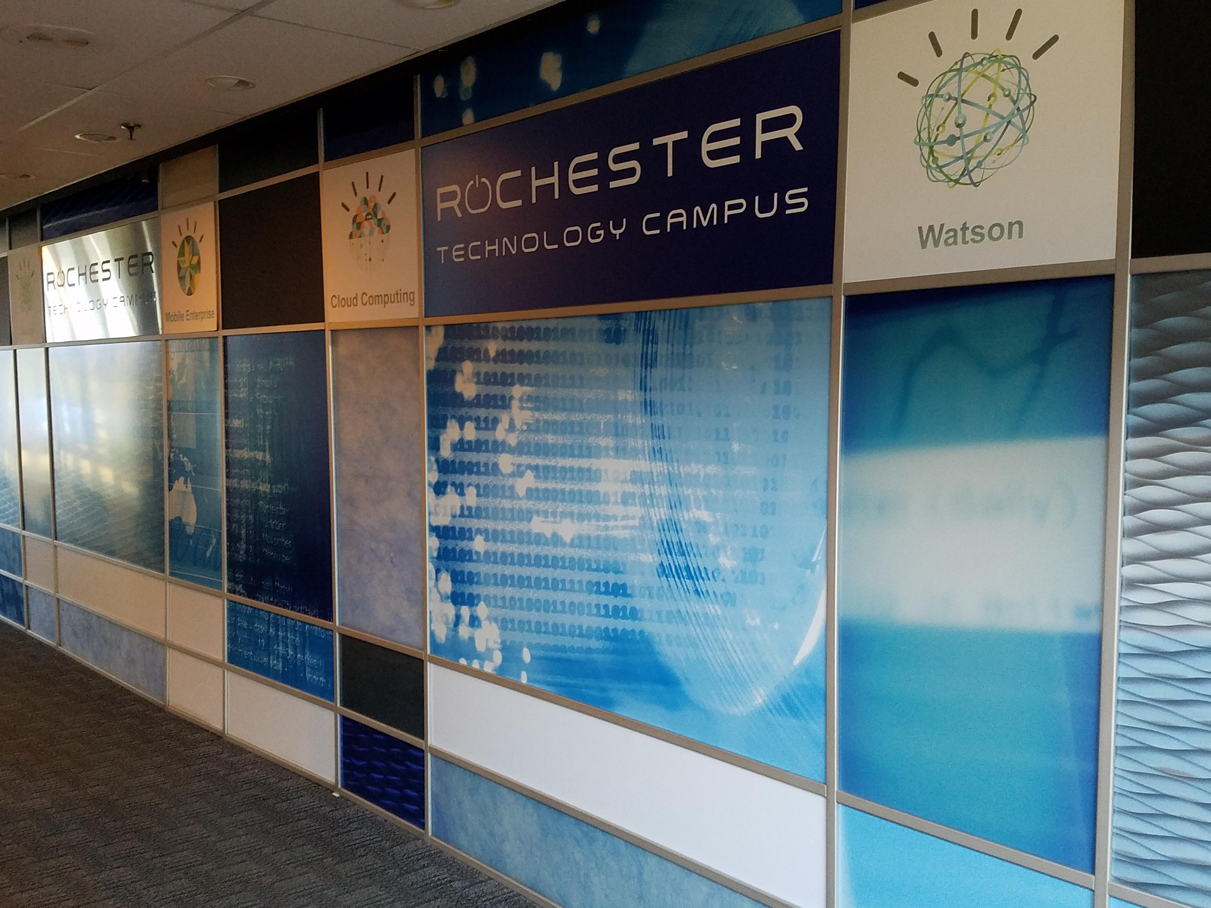 Decorative wall in the IBM facility in Rochester, Minnesota, newly renamed to "Rochester Technology Campus".